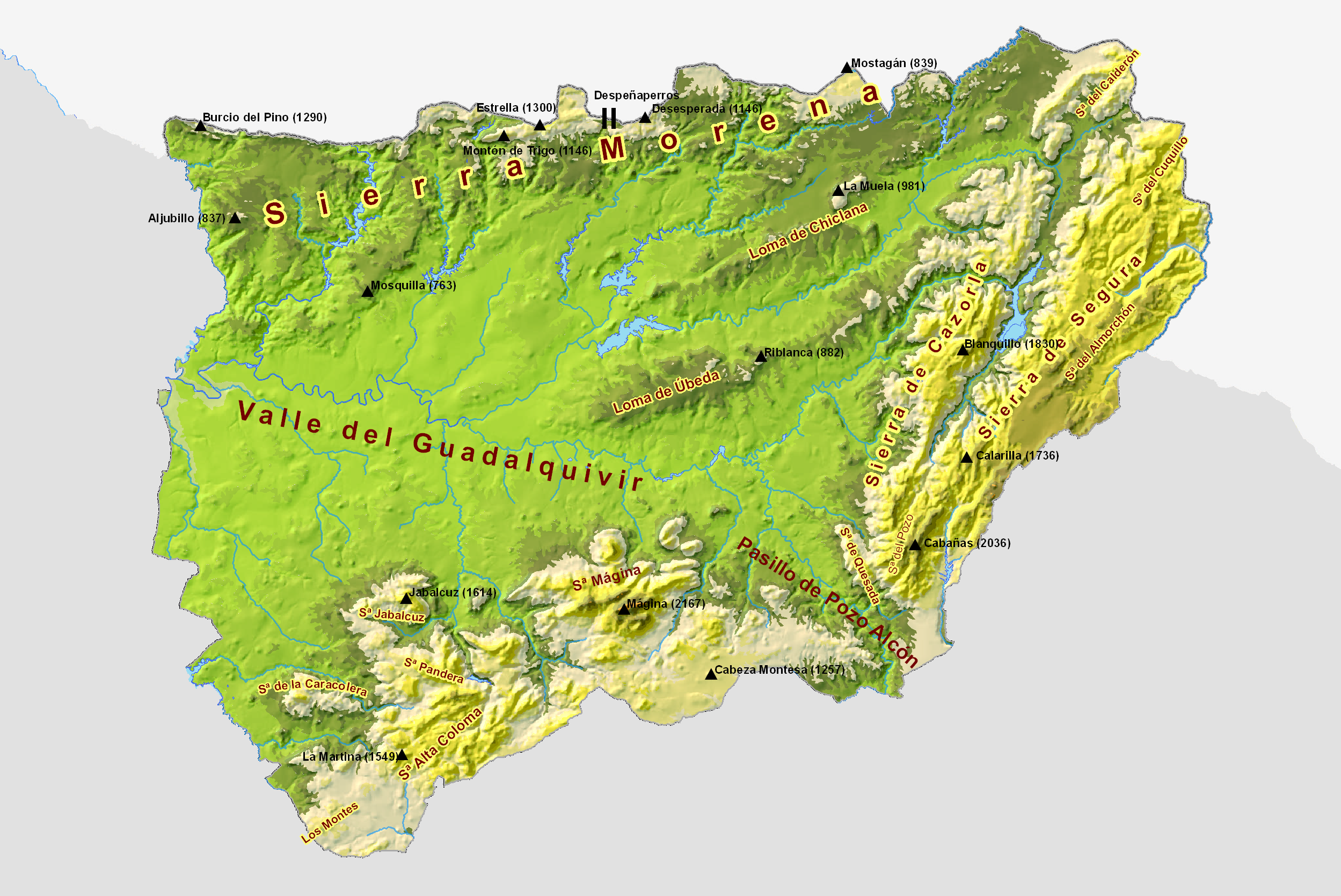 Relief of the province of Jaen.